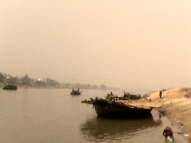 অজয় ও ভাগীরথী নদীর সংগম, কাটোয়া। পশ্চিমবঙ্গ।